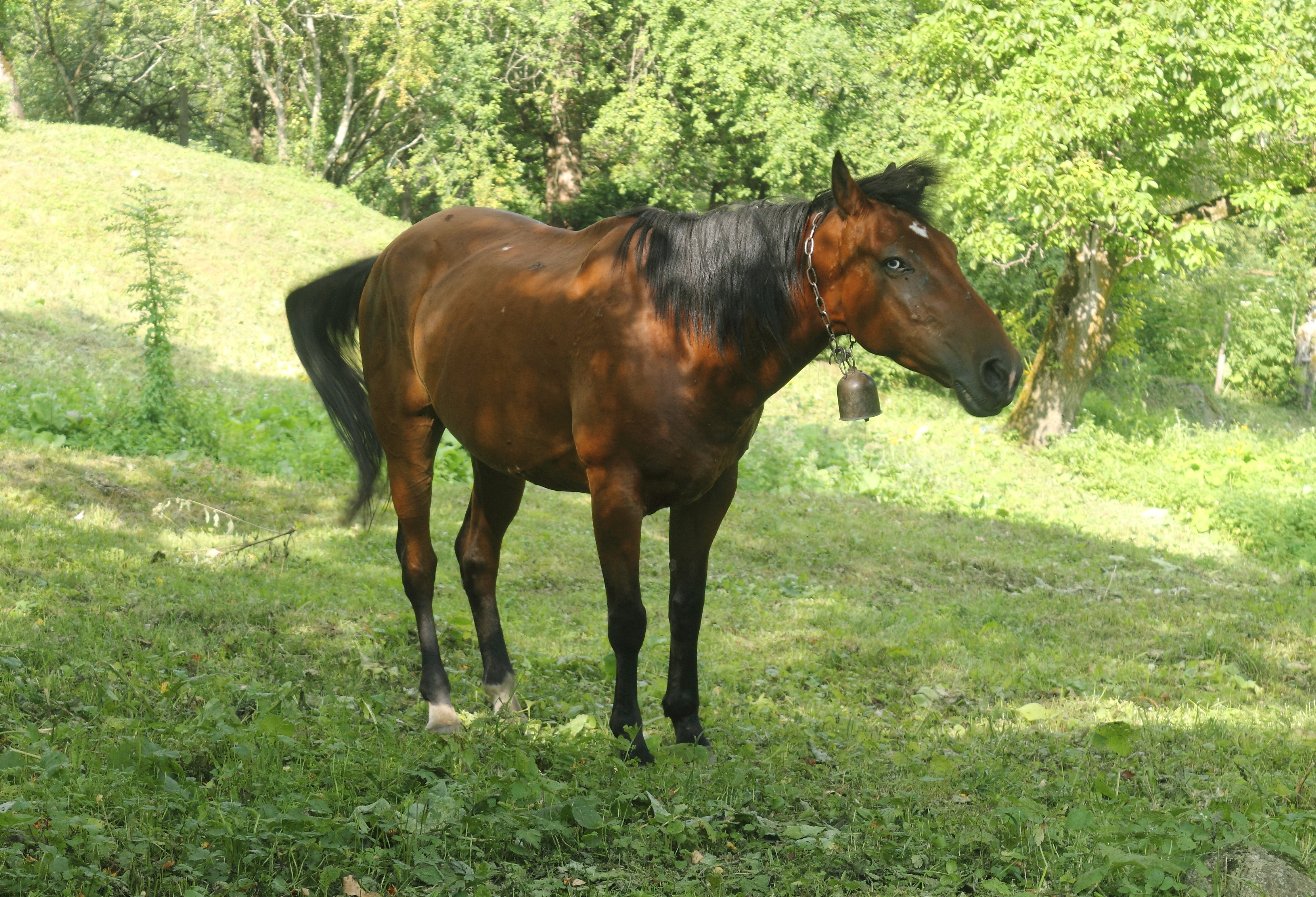 Free-roaming horse on a cordon of forest guard in Caucasus Biosphere Reserve